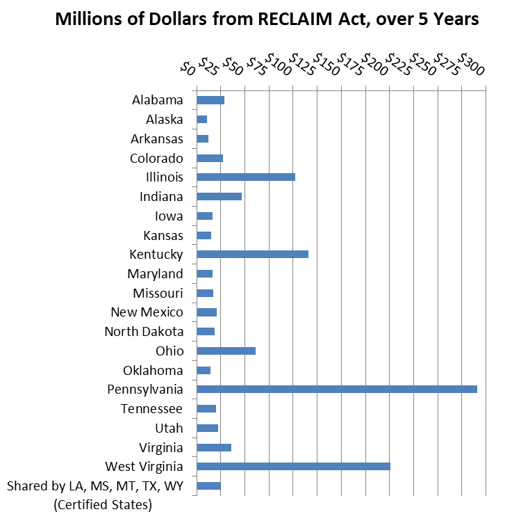 Sec. 416(d) divides money among states by a formula, with 80% weight on the amount of coal mined from each State or Indian tribe before August 3, 1977, and 20% weight on reclamation fees paid from 2012 through 2016.